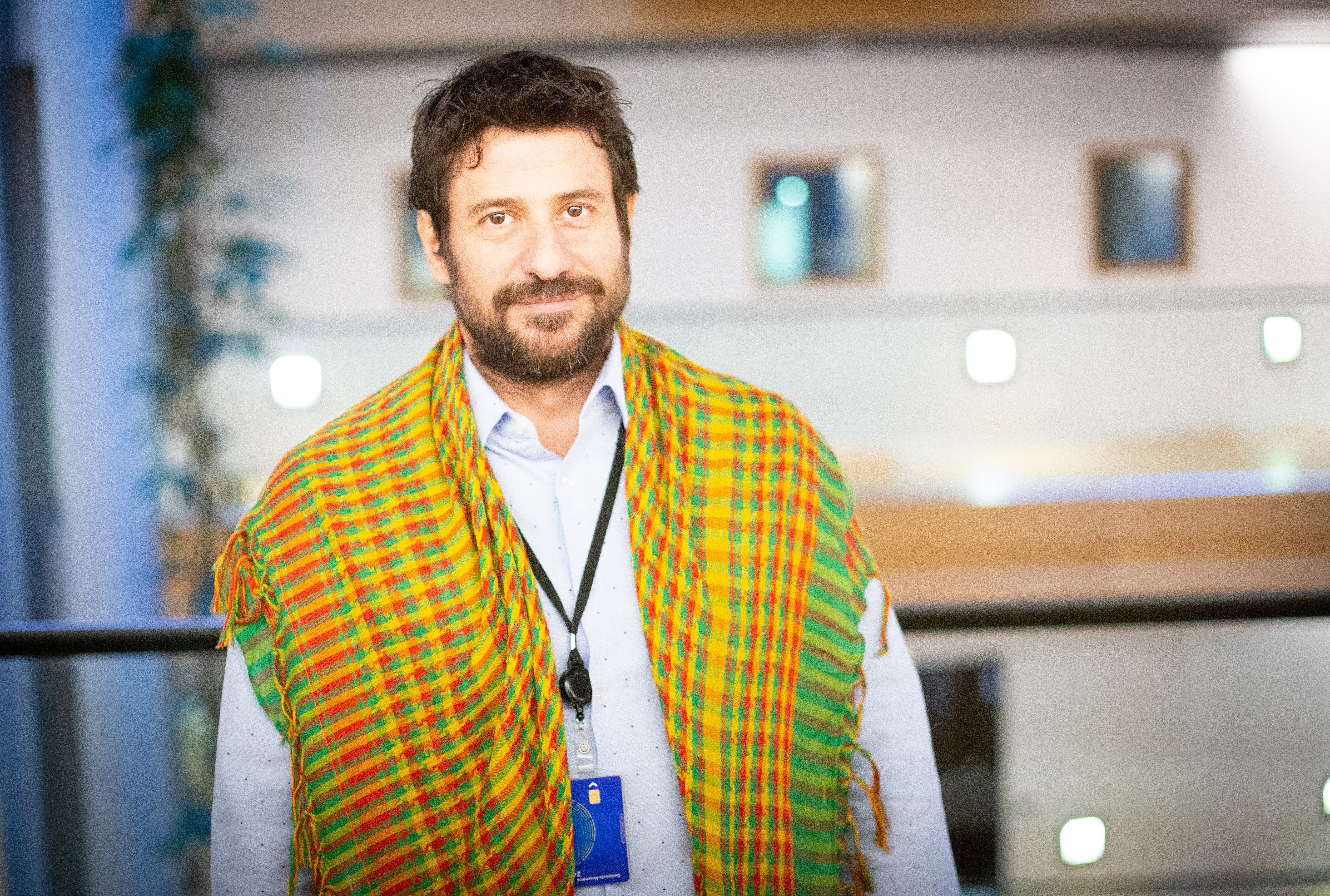 This week in #Eplenary our MEPs showed their solidarity with the Kurdish people #Rise4Rojava